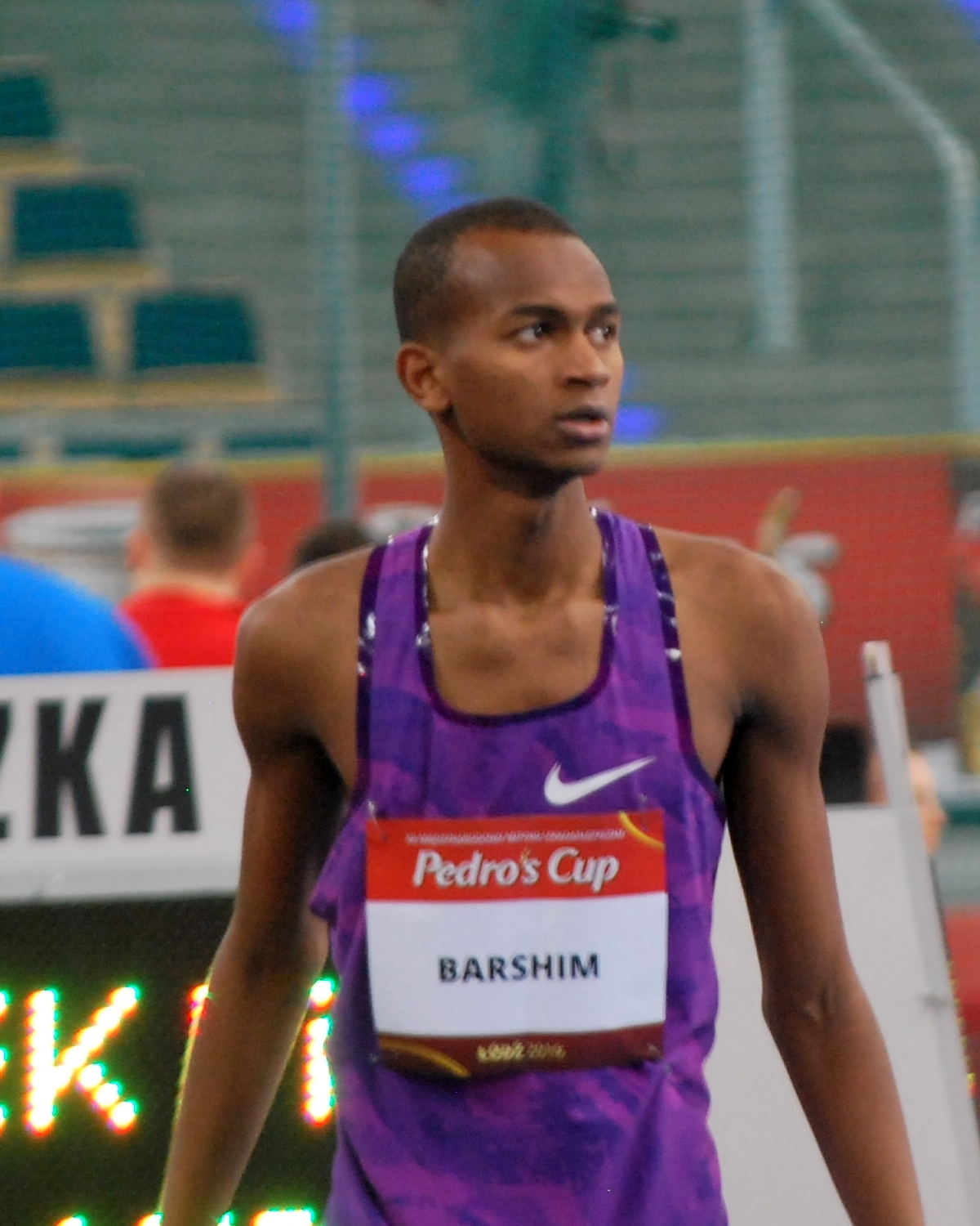 Mutaz Essa Barshim, high jumper from Qatar, Pedro's Cup Łódź 2016